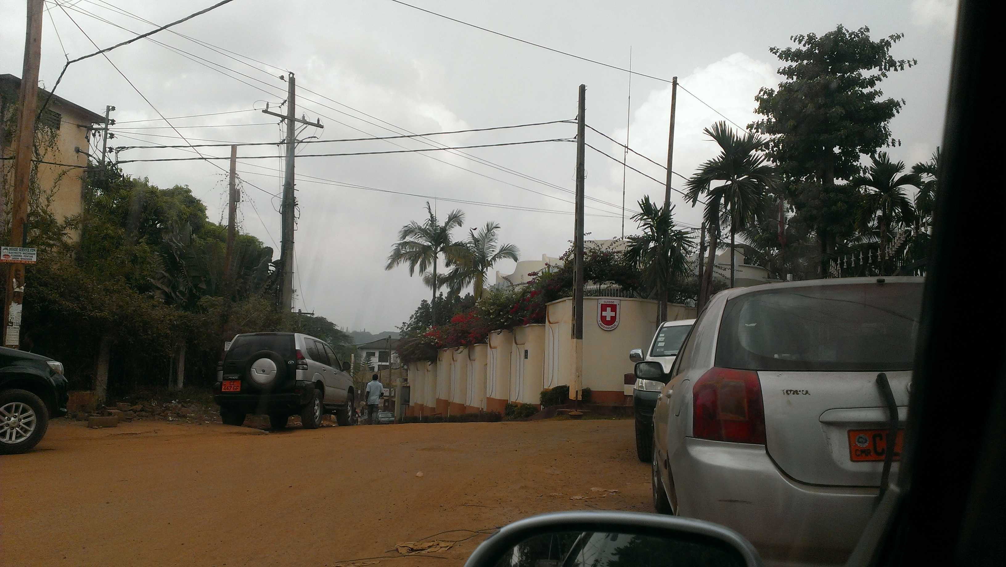 Swiss Embassy in Yaoundé